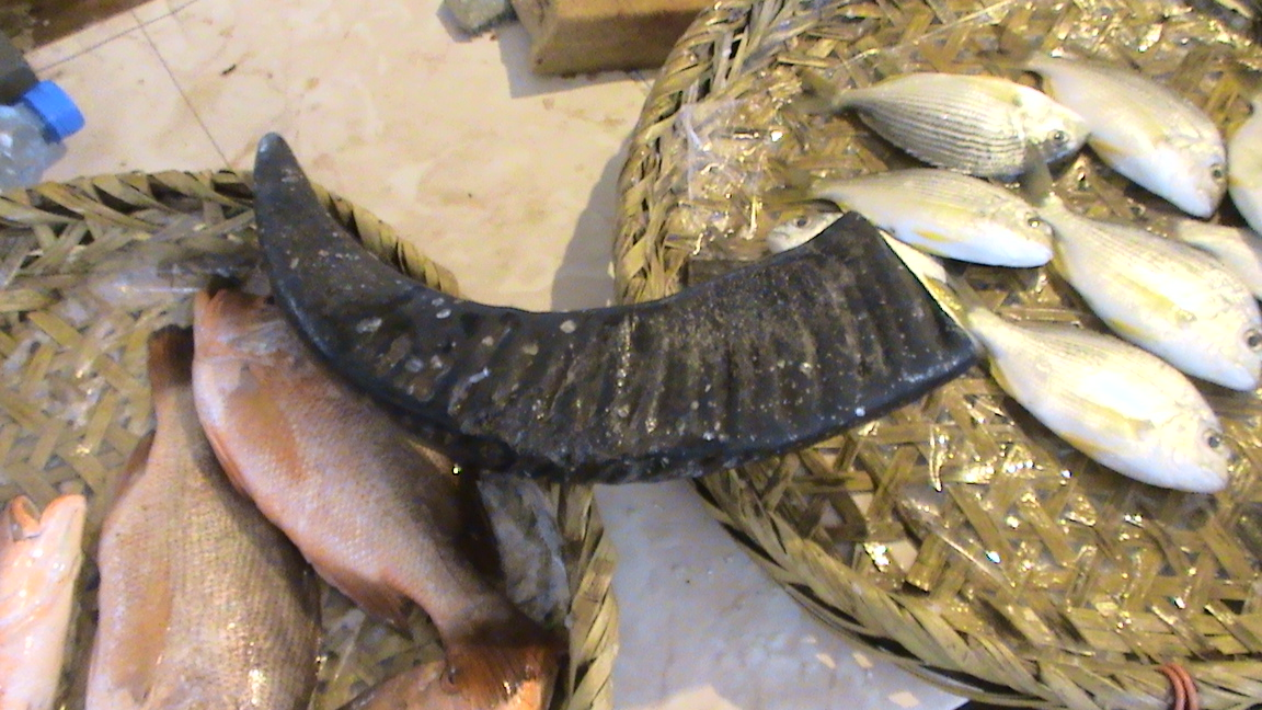 Water buffalo Bubalus bubalis horn used as mallet with cleaver to cut fish. Haikou, Hainan, China. More pictures of buffalo horn